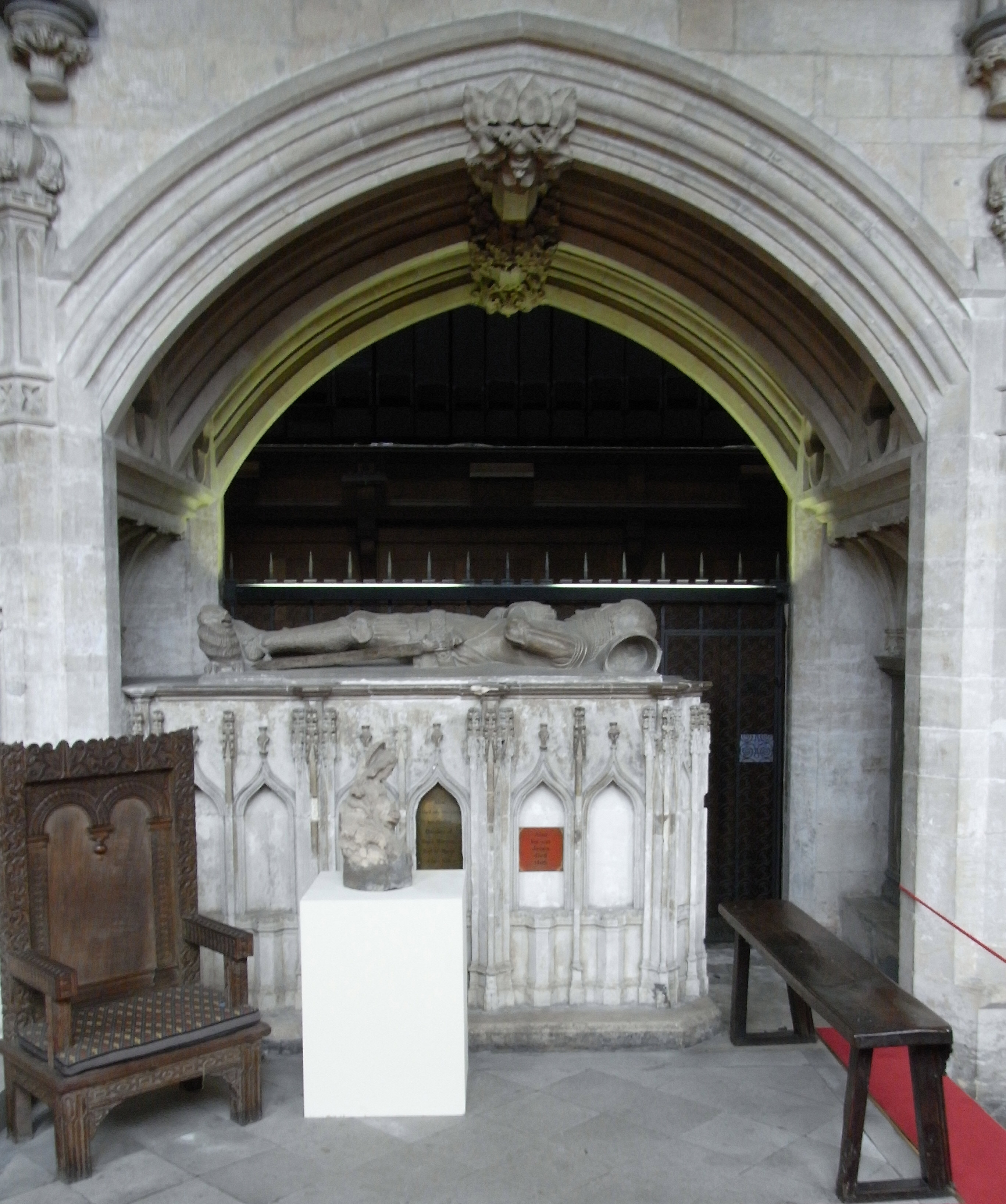 Chest tomb supporting restored effigies of Maurice de Berkeley, 4th Baron Berkeley(d.1368) "The Valiant", & his wife Elizabeth le Despenser, St Augustine's Abbey (Bristol Cathedral), Lady Chapel, south wall.